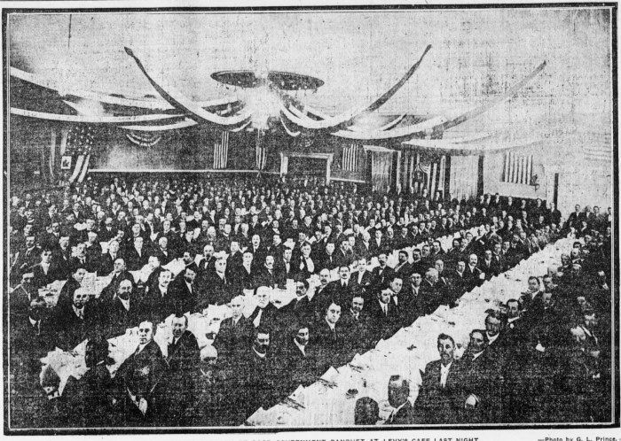 700 members and friends of Good Government organization in Los Angeles, California, pose for photograph in Levy's restaurant on December 17, 1909